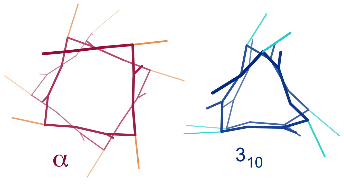 Comparison of helix end views, for alpha (offset square) versus 3-10 (triangular). Backbone atoms shown, plus sidechain out to Cbeta, viewed from the N-terminal end; displayed in KiNG.